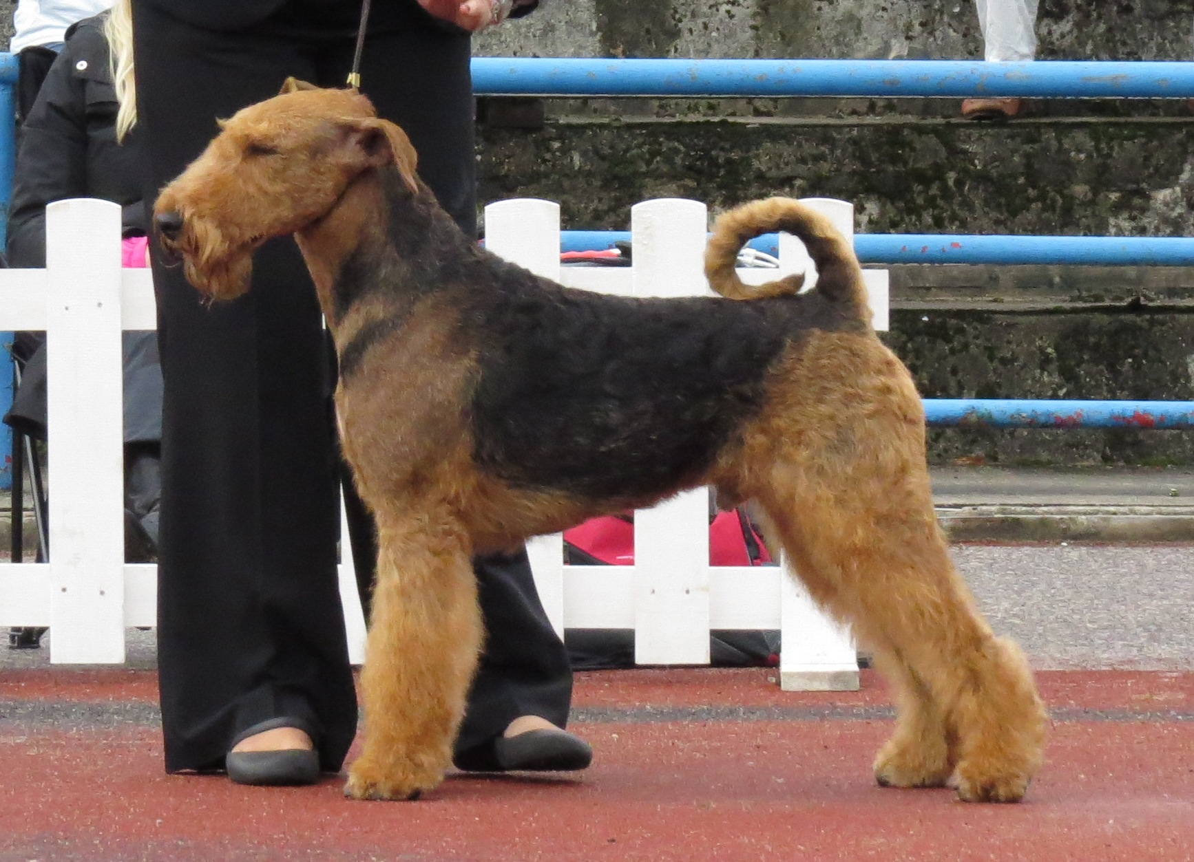 Tallinn, Estonia, duo CACIB 2013, August 17-18